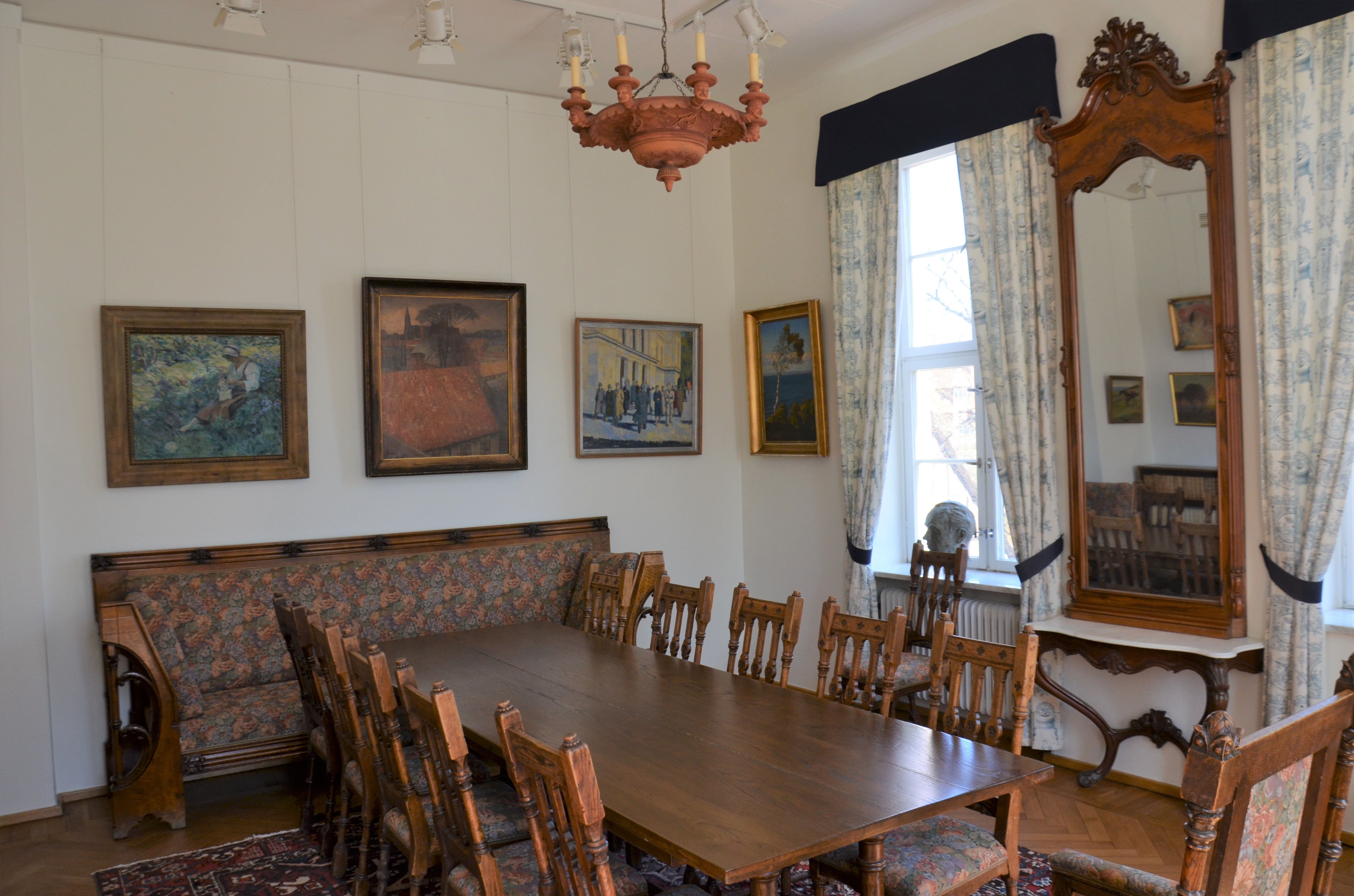 Zetterwallrummet i Akademiska Föreningens byggnad i Lund